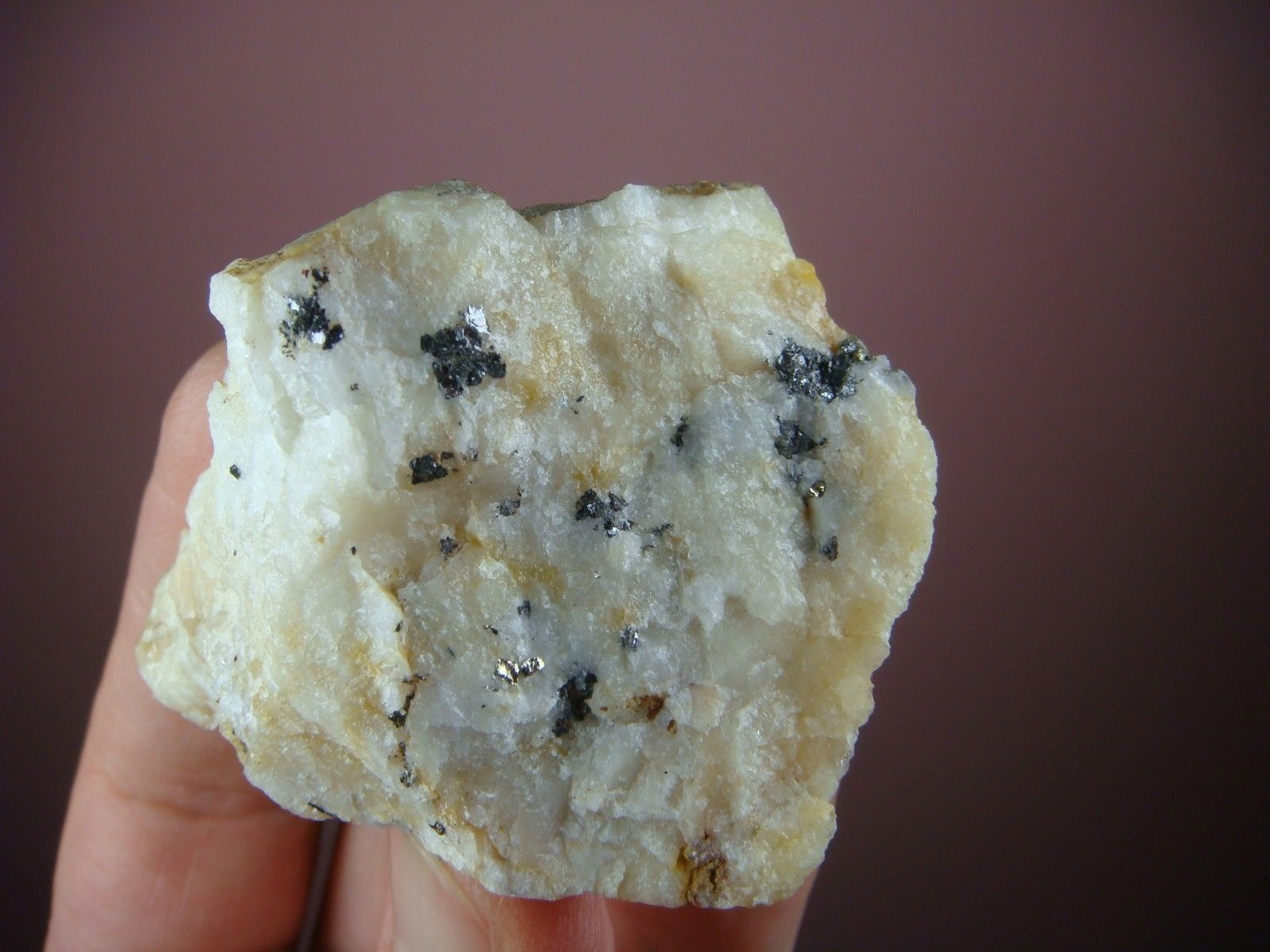 Heyrovskýite, Quartz Locality: Rakovník (Rakonitz), Central Bohemia Region, Bohemia (Böhmen; Boehmen), Czech Republic Dimensions: 50 mm x 43 mm x 32 mm; Weight: 54 g Description: Silvery-bright heyrovskýite crystals in quartz.